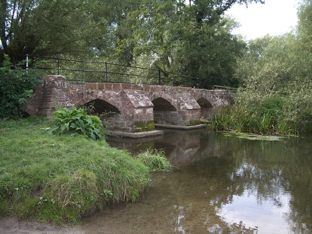 15th-century packhorse bridge across the River Blythe at Hampton-in-Arden, West Midlands (formerly Warwickshire). This is part of Marsh Lane but is not accessible to vehicles. In the foreground is a ford through the river.